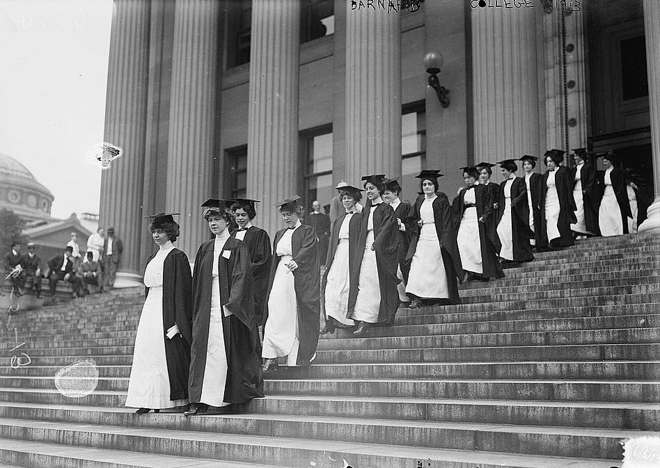 Barnard College, 1913 (LOC) Bain News Service,, publisher. Barnard College, 1913 1913 June 4. 1 negative : glass ; 5 x 7 in. or smaller. Notes: Title and date from data provided by the Bain News Service on the negative. Forms part of: George Grantham Bain Collection (Library of Congress). Format: Glass negatives.